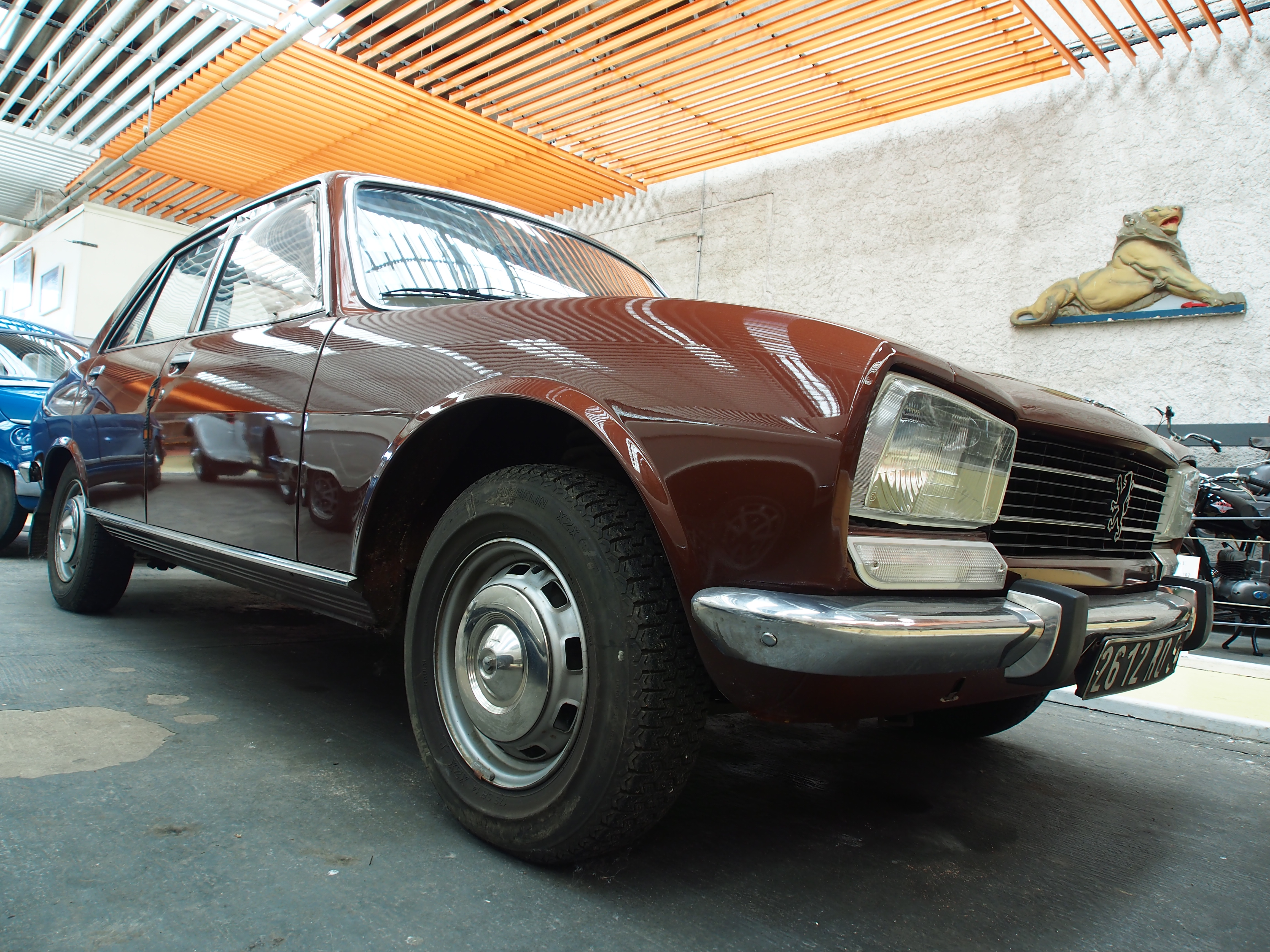 Photographed at the Association Lorraine des Amateurs d'Automobiles de collection et de loisirs. Please help me identify this type and/or manufacturer and replace this text with it! Thanks.